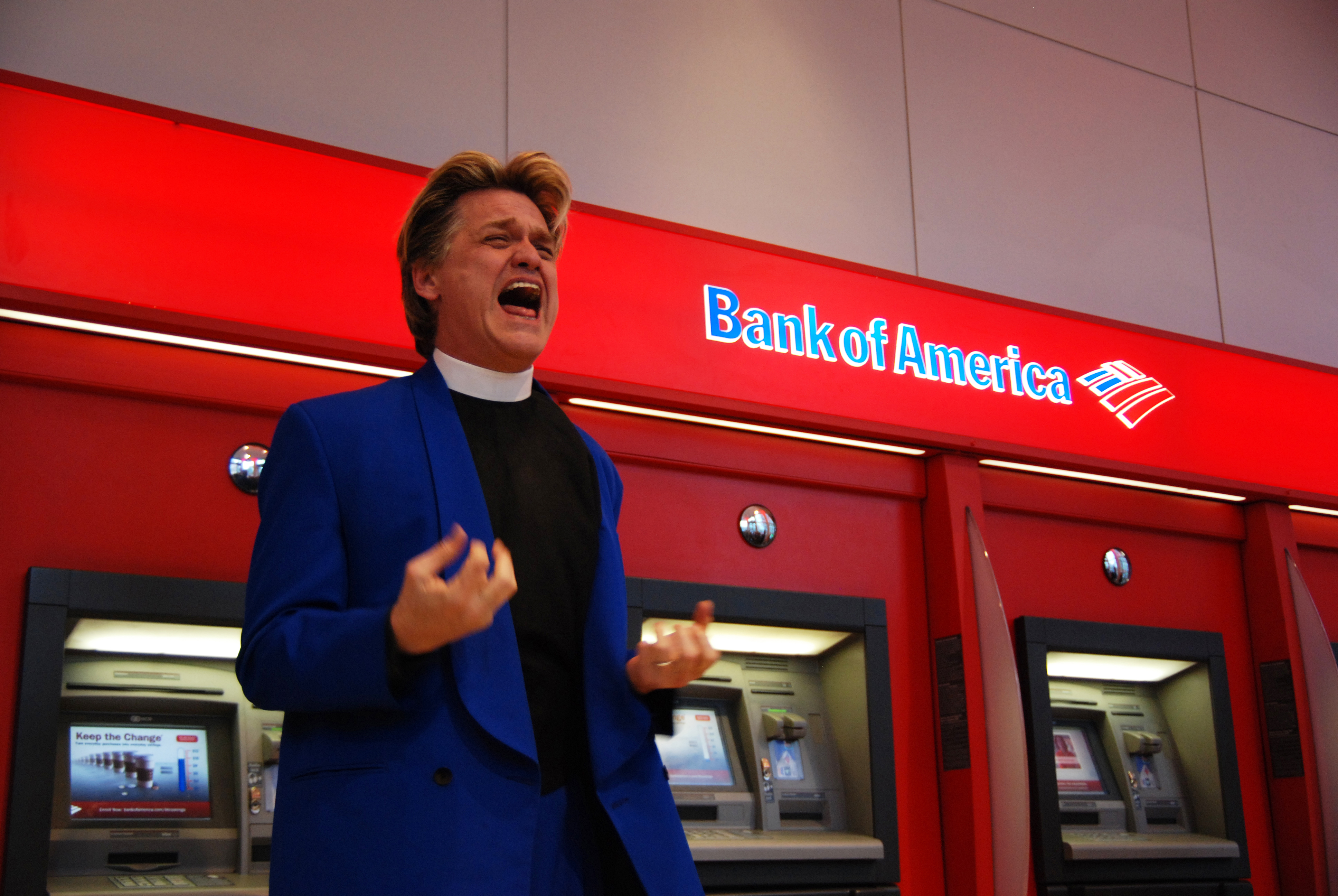 Reverend Billy from The Church of Stop Shopping attempting to exorcise bad loans and toxic assets from the Bank of America ATM in Union Square (New York City).